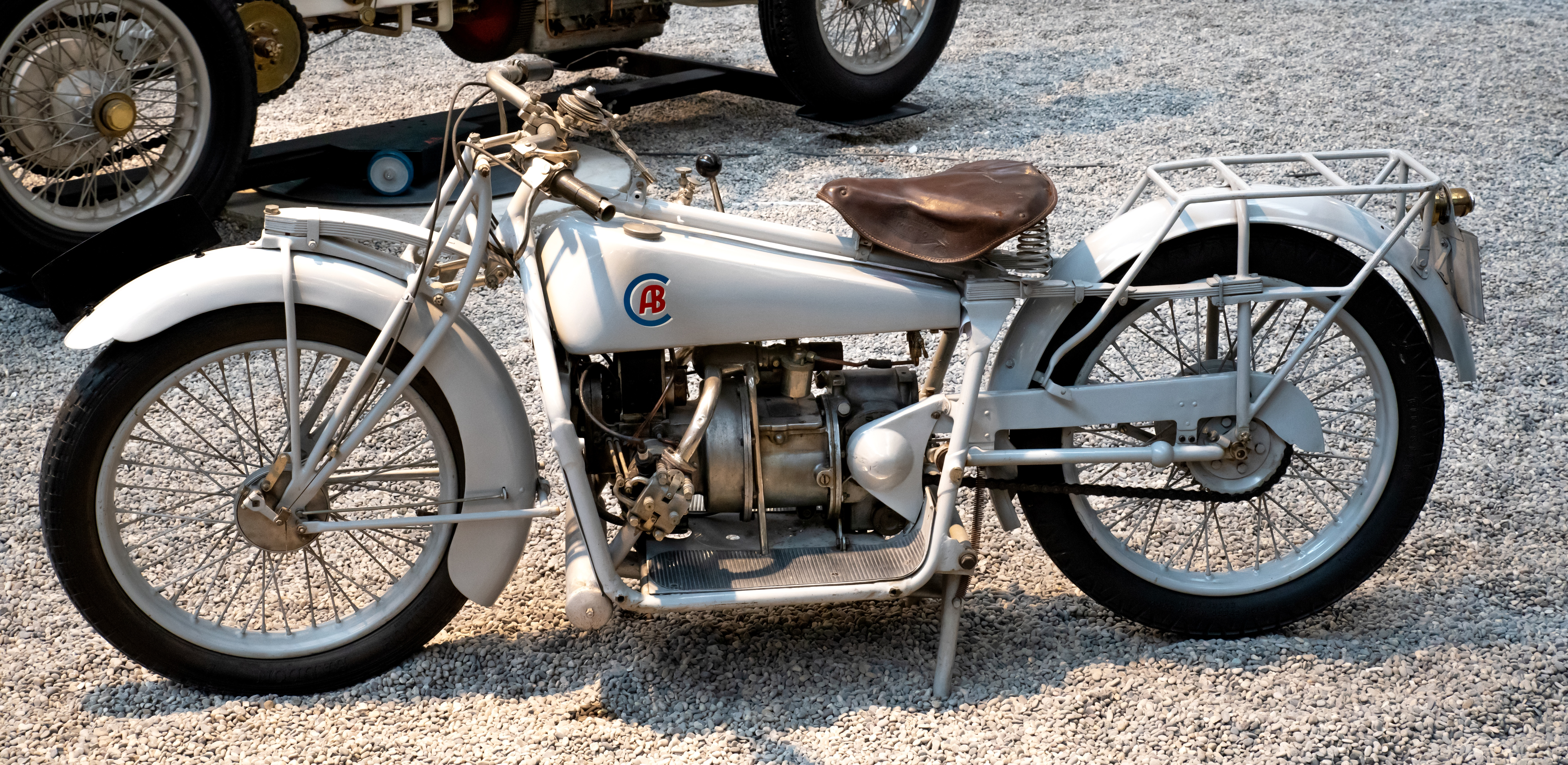 pictures from the Cité de l’Automobile – Musée National – Collection Schlump in Mulhouse, France ptictures from the 10. may 2018